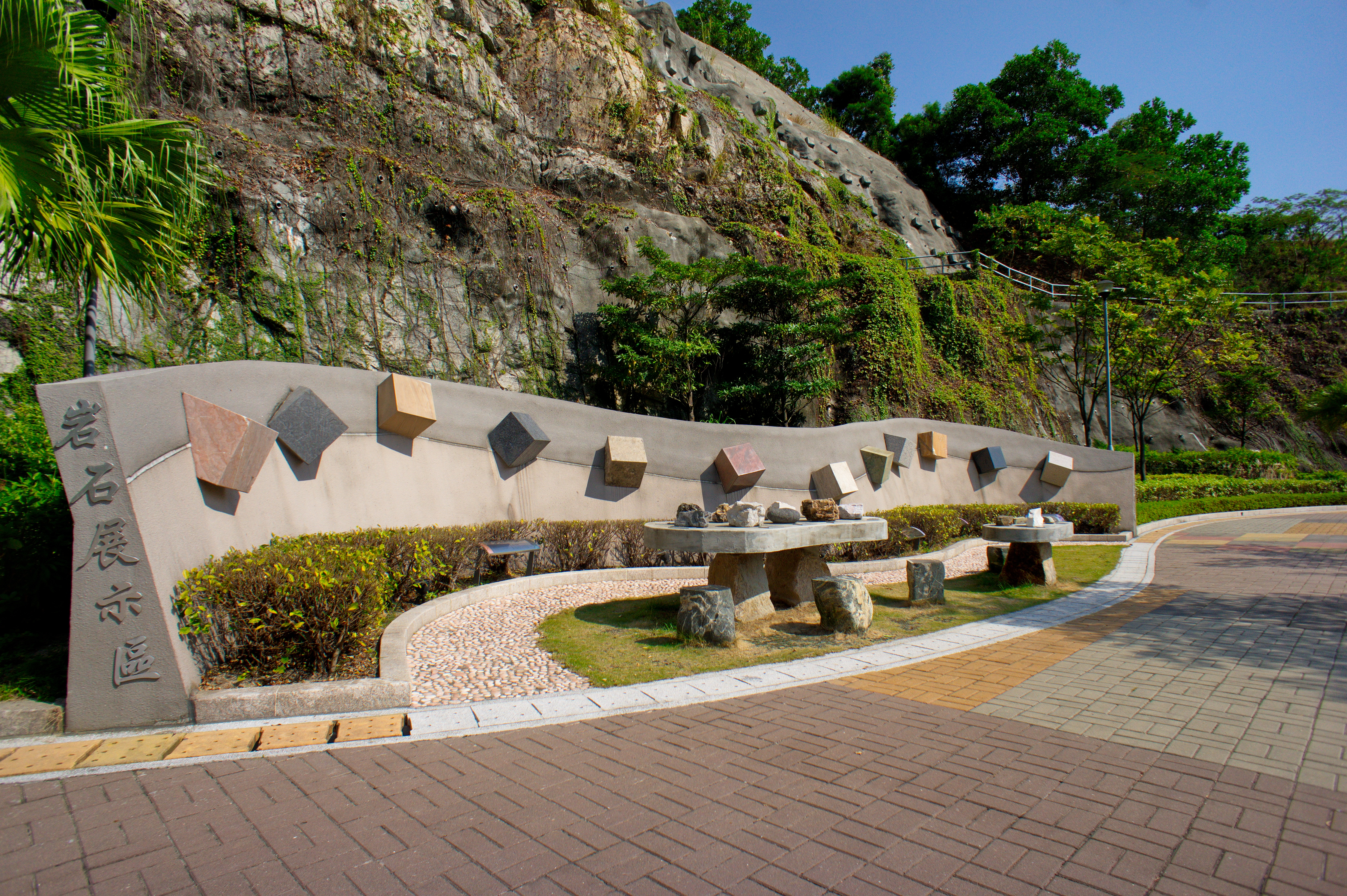 The Rock Display Area at the Choi Wing Road Park, Kowloon, Hong Kong.